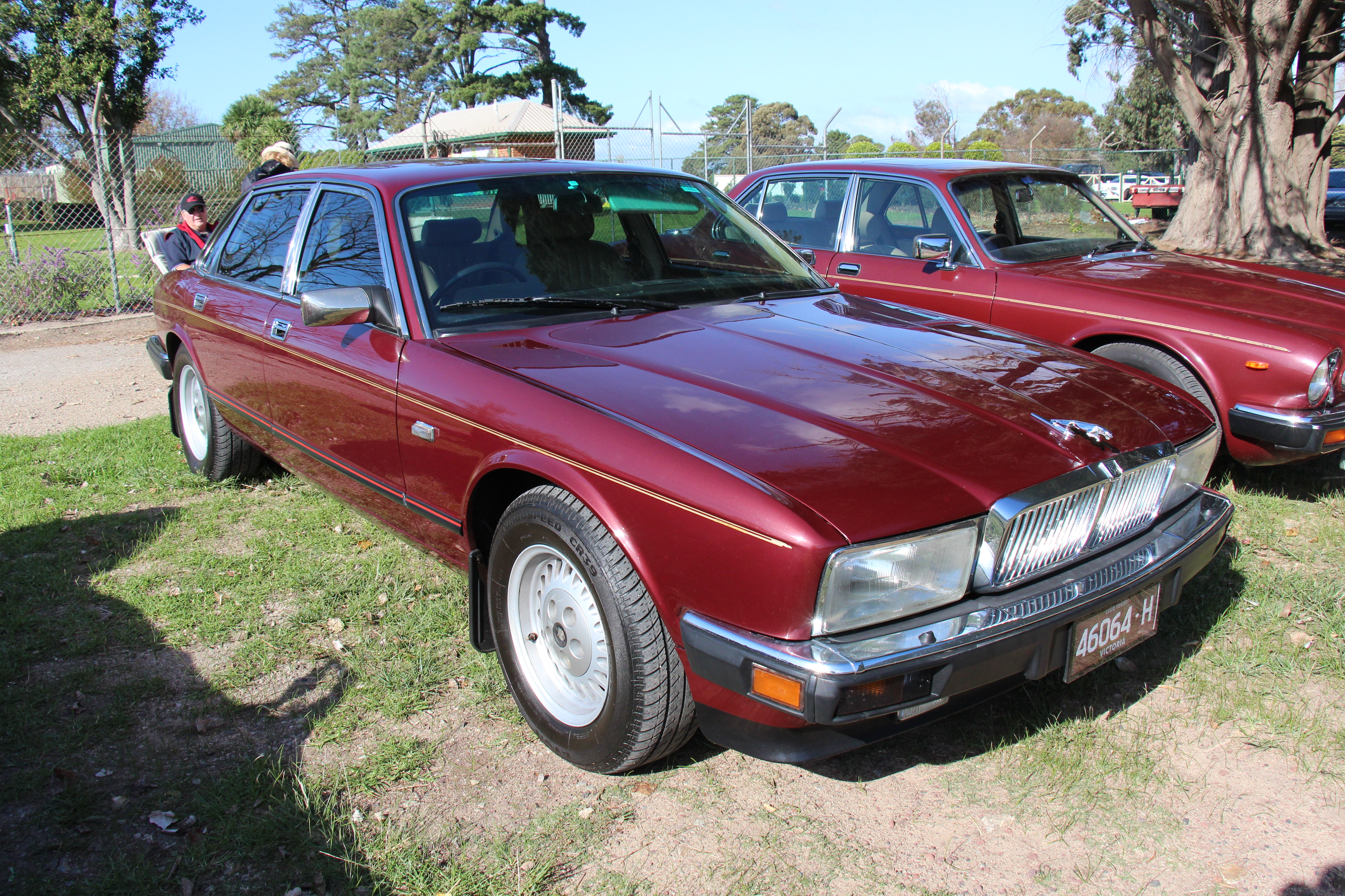 The XJ40 replaced the XJ Series I to III, (although the Series III was sold concurrently until 1992 when discontinued). A lot less body panels were used in building the XJ40 compared to the Series III, this meant cheaper to build and lighter. The XJ40 was more angular, loosing some of those classic Jaguar lines. The interior of the XJ40 was trimmed with either walnut or rosewood, and either cloth or leather upholstery (depending on model.) Models available were; The base XJ40; 6 cyl, Quad round headlights, black window frames. The V12 got a black grille and 4 speed auto Sovereign; Rectangular headlights, chrome window frames, Air con, rear self-levelling suspension Sport; introduced in 1993, alloys, rosewood interior trim (as opposed to the walnut trim of other models.) Both the door mirrors and radiator grille vanes were body colour XJR; performance model, uprated suspension and engine, bodykit, black grille, alloys and sports interior Daimler versions were also available, they were the highest trim versions, in 6 cyl or V12, they also got a fluted grille surround. Engines; 2.9, 3.2, or 3.6 6 cyls or 6.0 V12